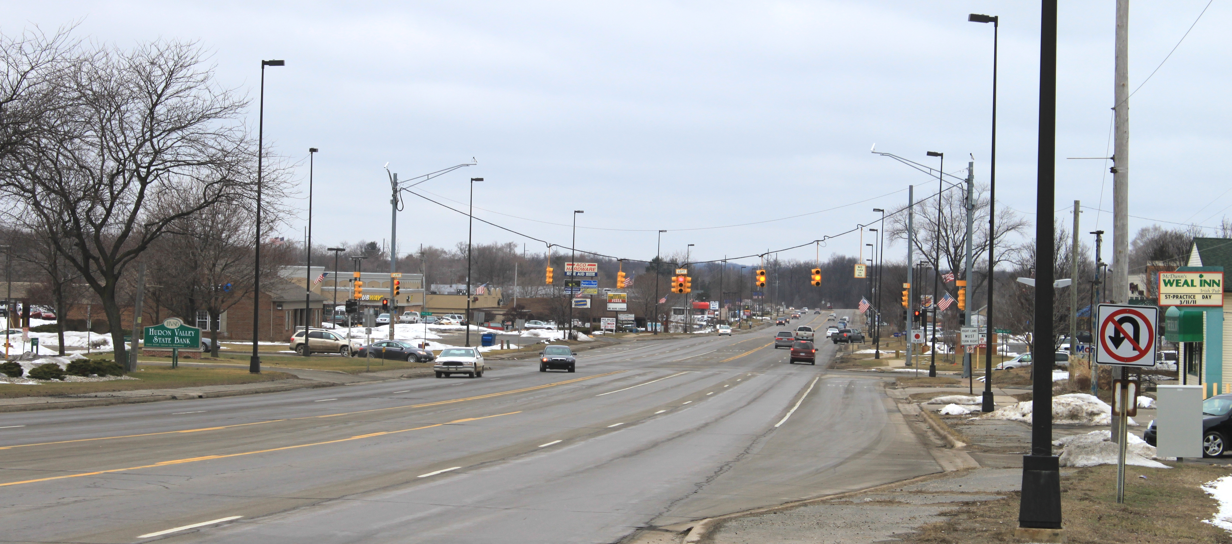 M-59 state Highway (Highland Road), Highland Township, Michigan